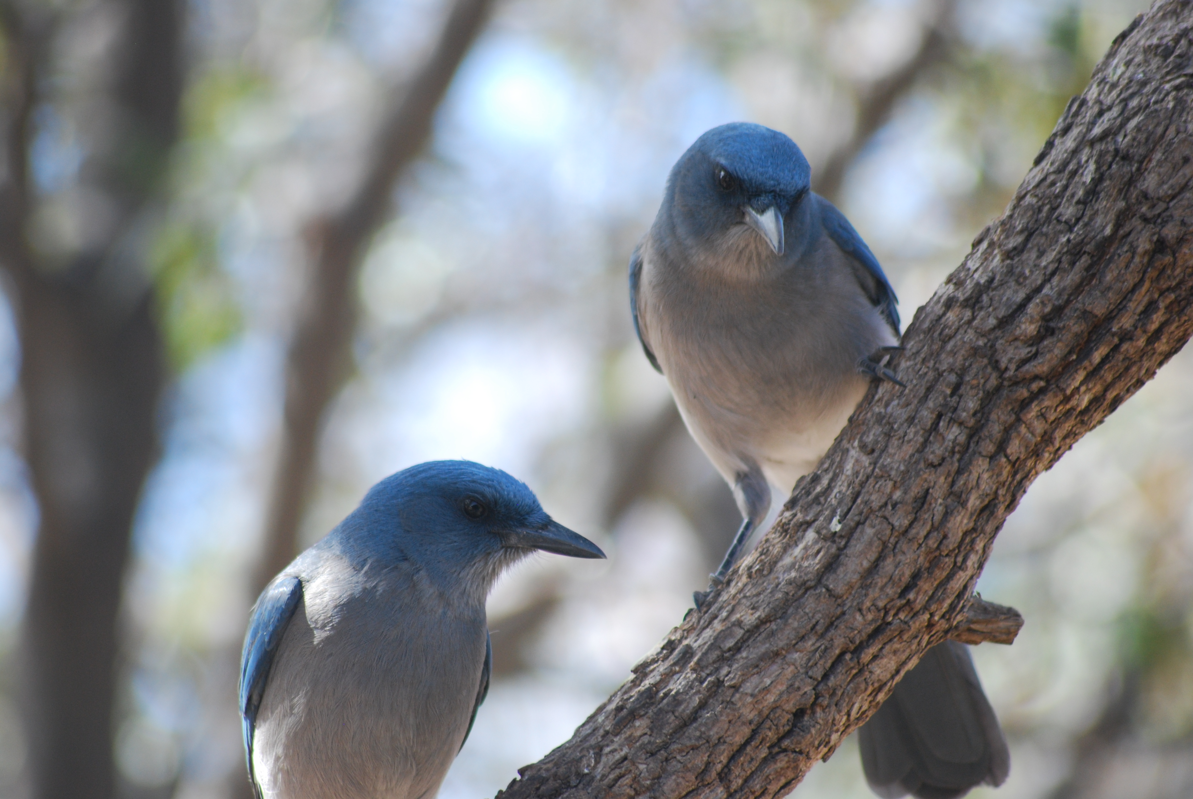 Mexican Jay Aphelocoma wollweberi, Cochise, Arizona